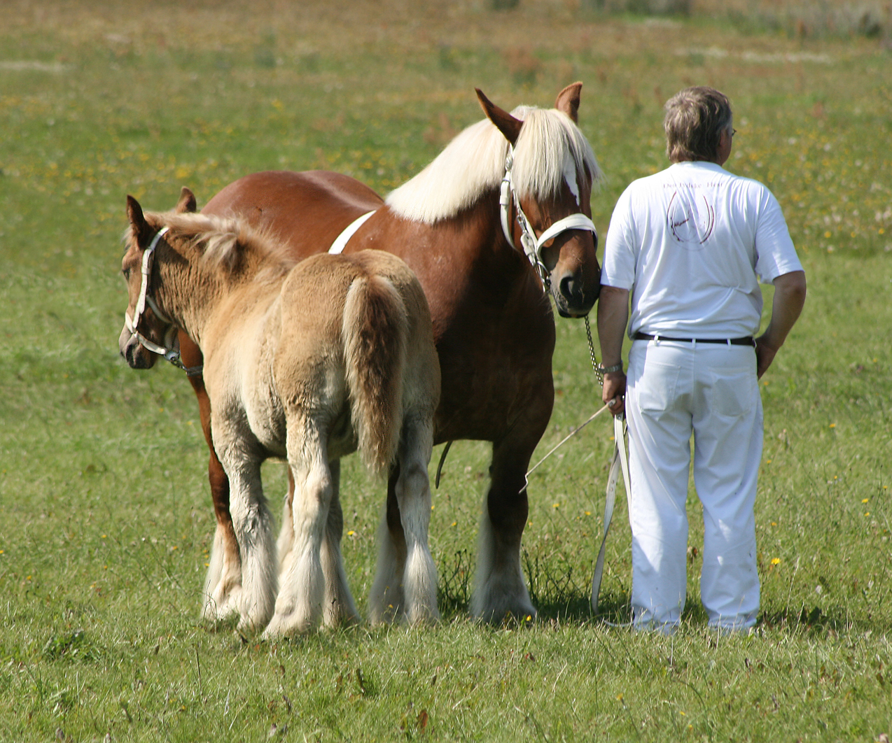 Jutlandic mare with foal at the historical agricultural show at Gl. Estrup, Djursland, Denmark